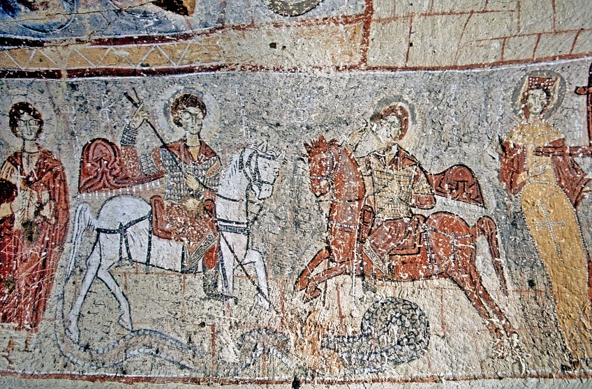 Fresco of SS. Theodore and George as horsemen slaying the serpent. Göreme, Cappadocia, Yılanlı Kilise ("Snake Church"). The date of the fresco is uncertain, it may date to the 9th, 10th or 11th century. This is one of the earliest depictions of St. George in connection with the dragon, and the combination with St Theodore (who had been depicted as dragon-slayer since the 7th century) marks the transfer of the dragon motif from Theodore to George. The first depictions of St George on his own slaying the dragon are also found in Cappadocia and date to the 11th century.